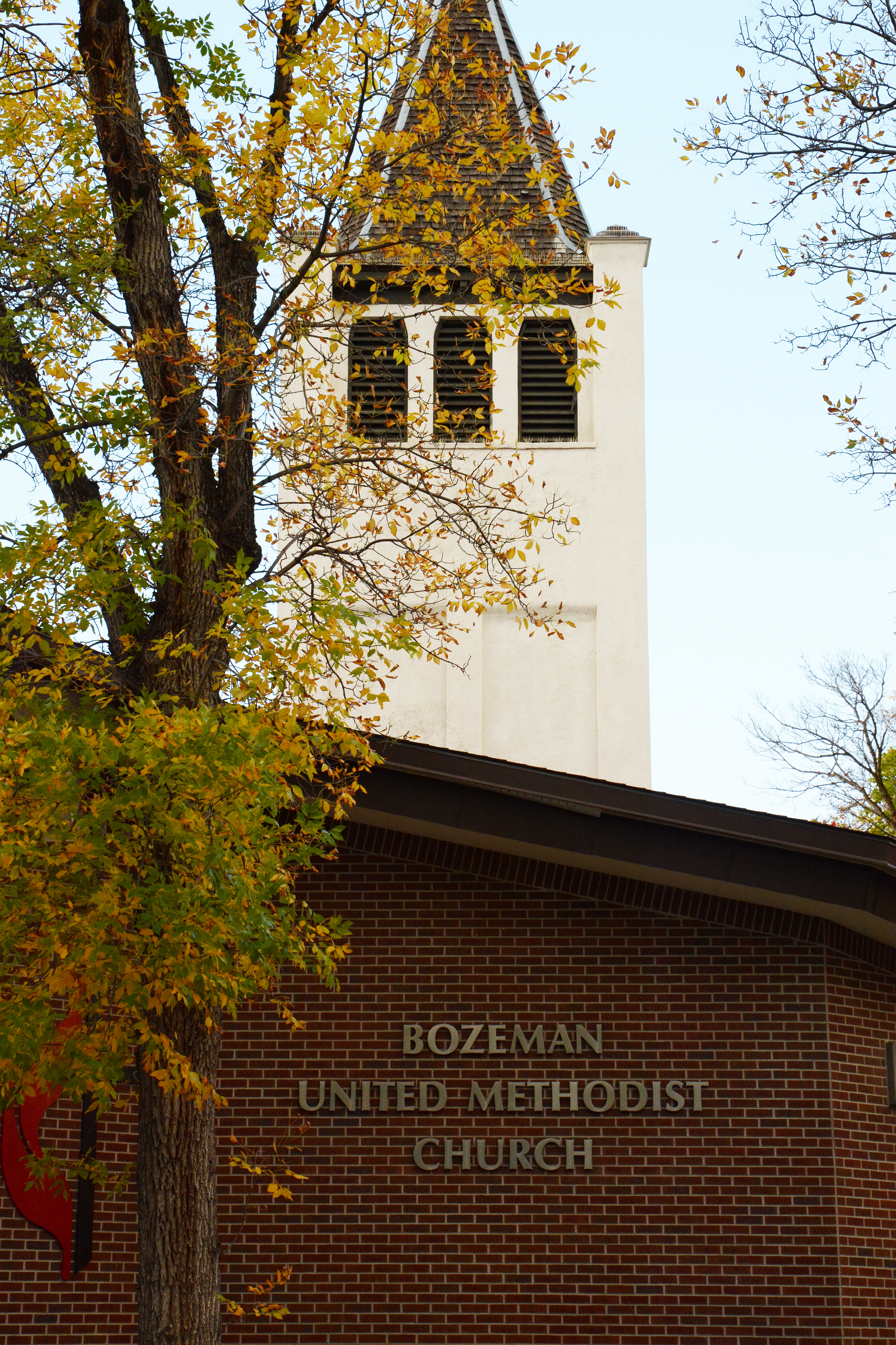 Methodist Episcopal Church 121 South Willson